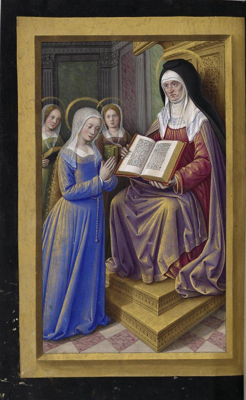 St Anne teaching the Virgin to read on f. 197v. Ms. Latin 9474